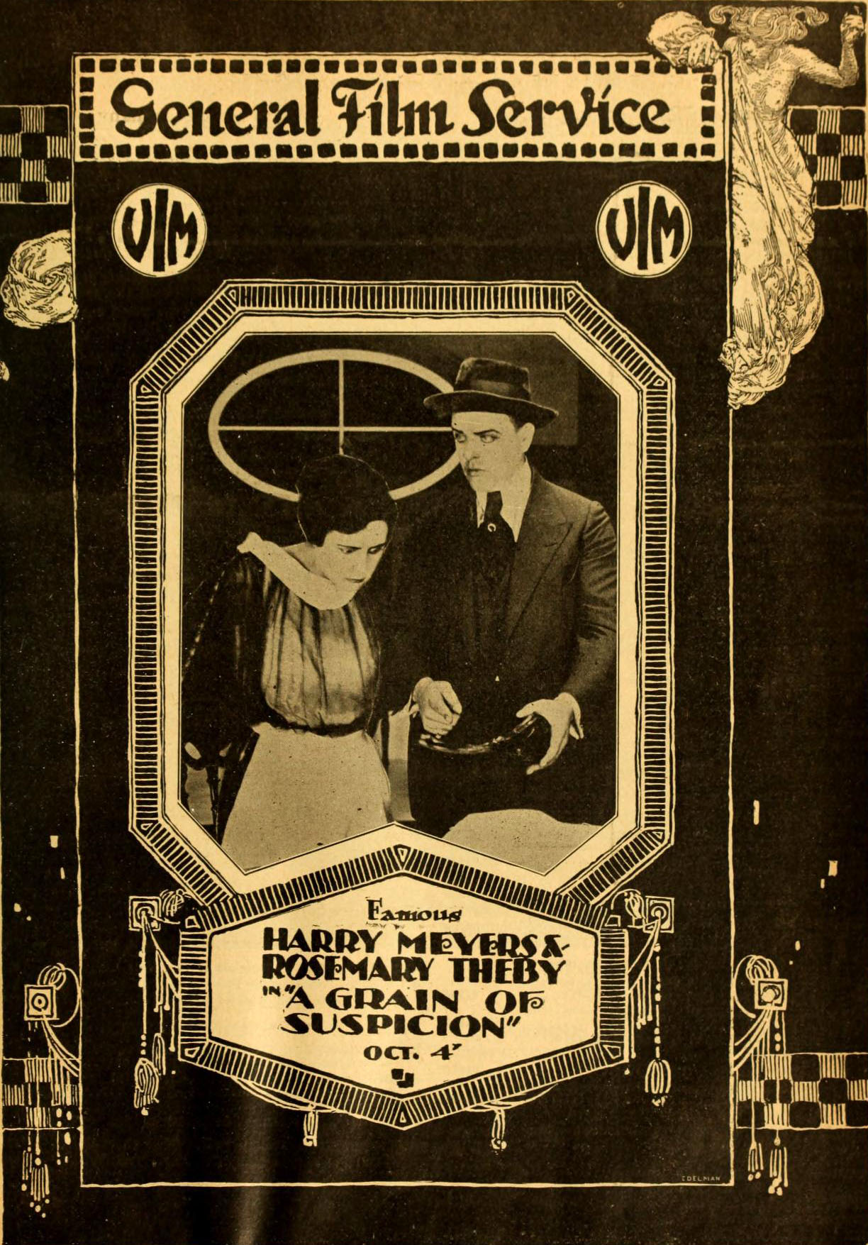 Advertisement inMoving Picture World for the film A Grain of Suspicion (1916).